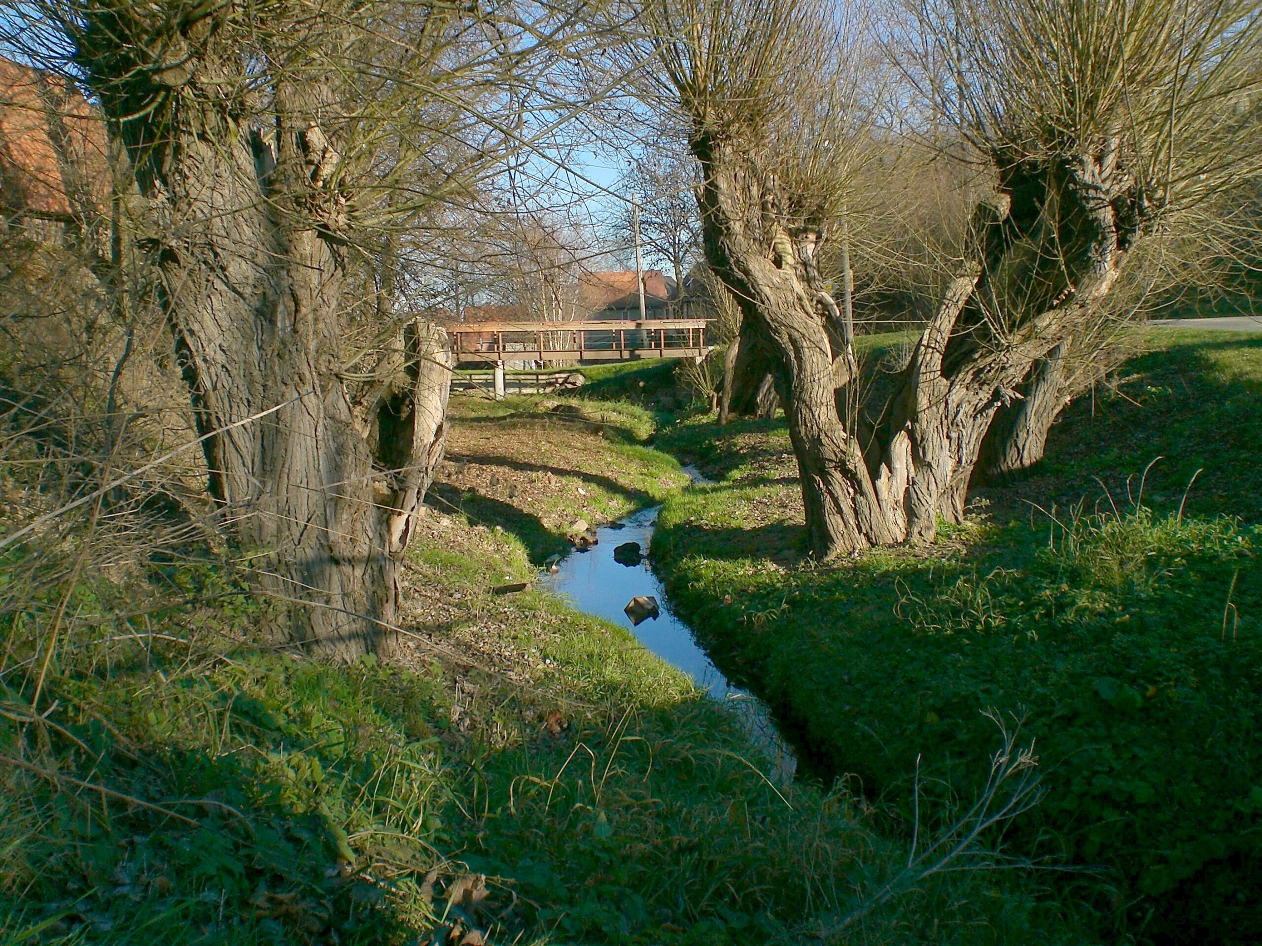 Landscape around the "Vasold" near Haarhausen